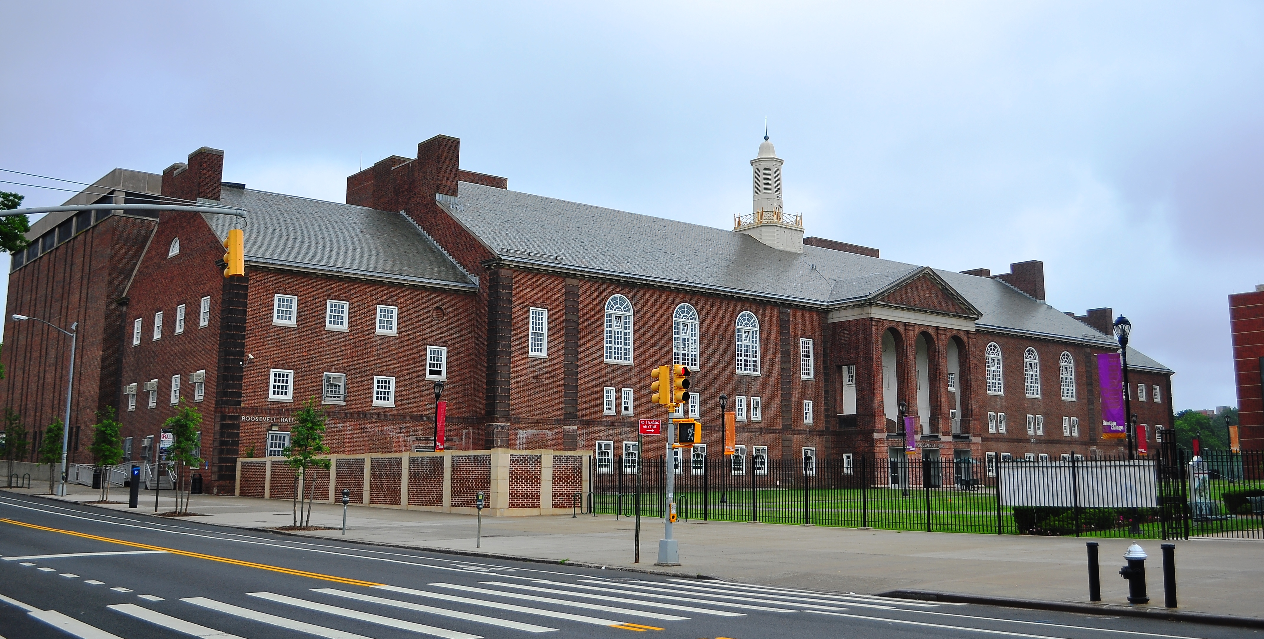 This is my image of Roosevelt Hall at Brooklyn College.